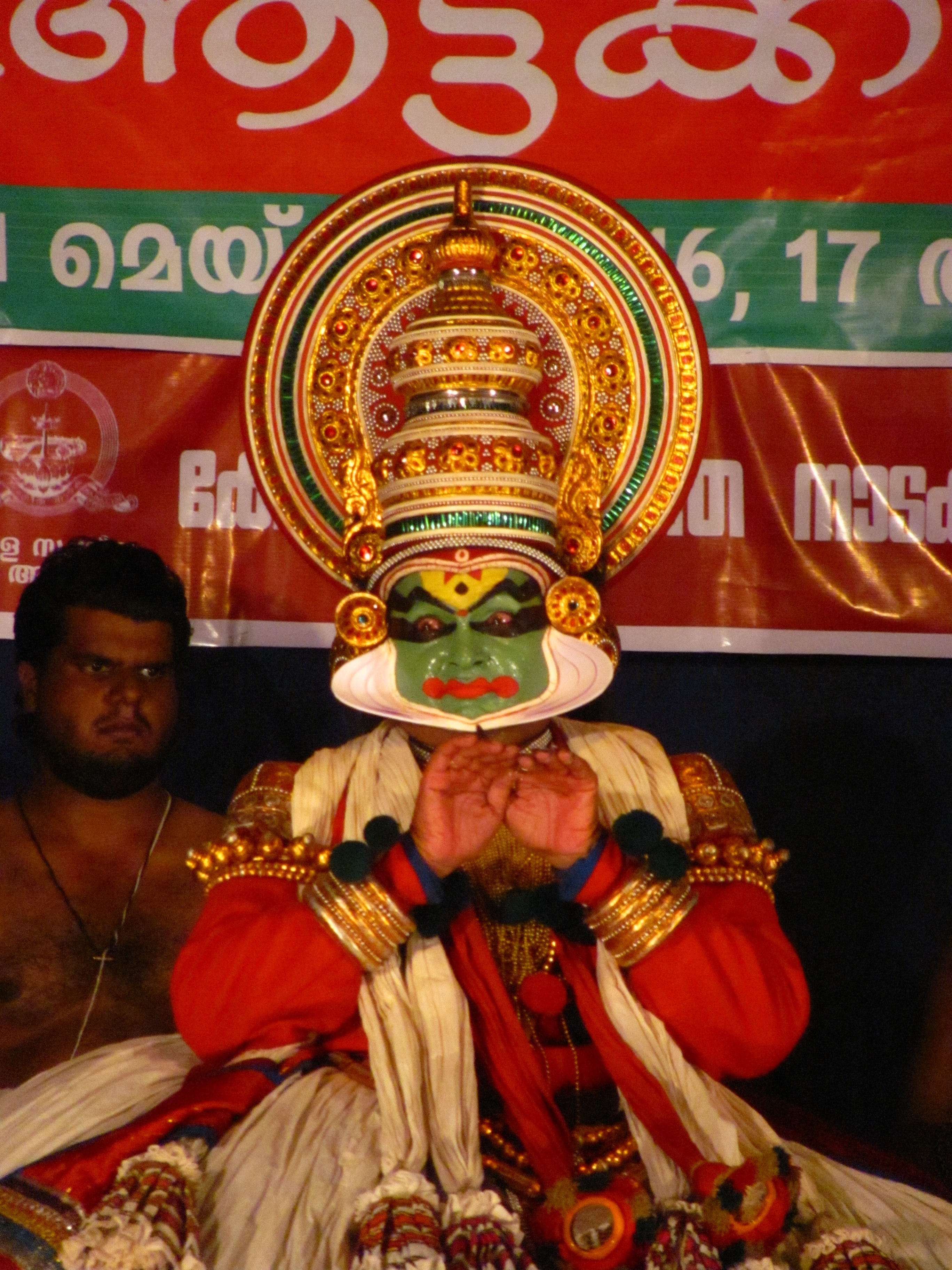 Ettumanoor kannan performing pachavesham